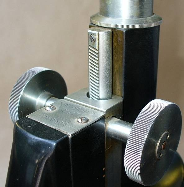 Microscope.